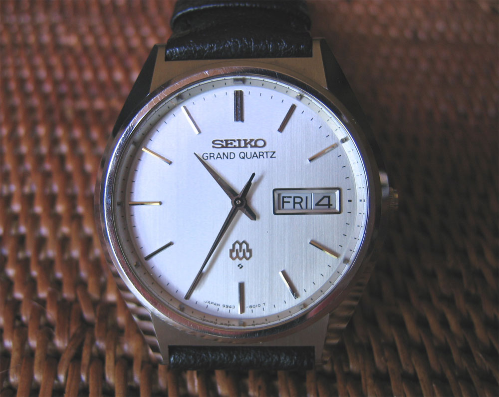 Grand Quartz , producted by Seiko, 1978. Taken By Uploader